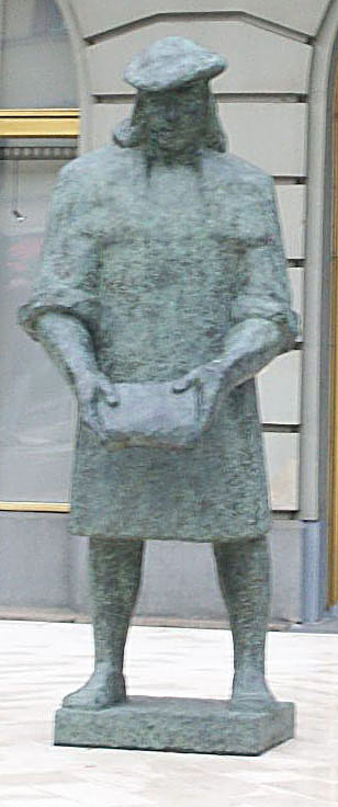 Benedikt Kotruljević (aka Benedetto Cotrugli, 1416-1469) memorial in Zagreb, Croatia.